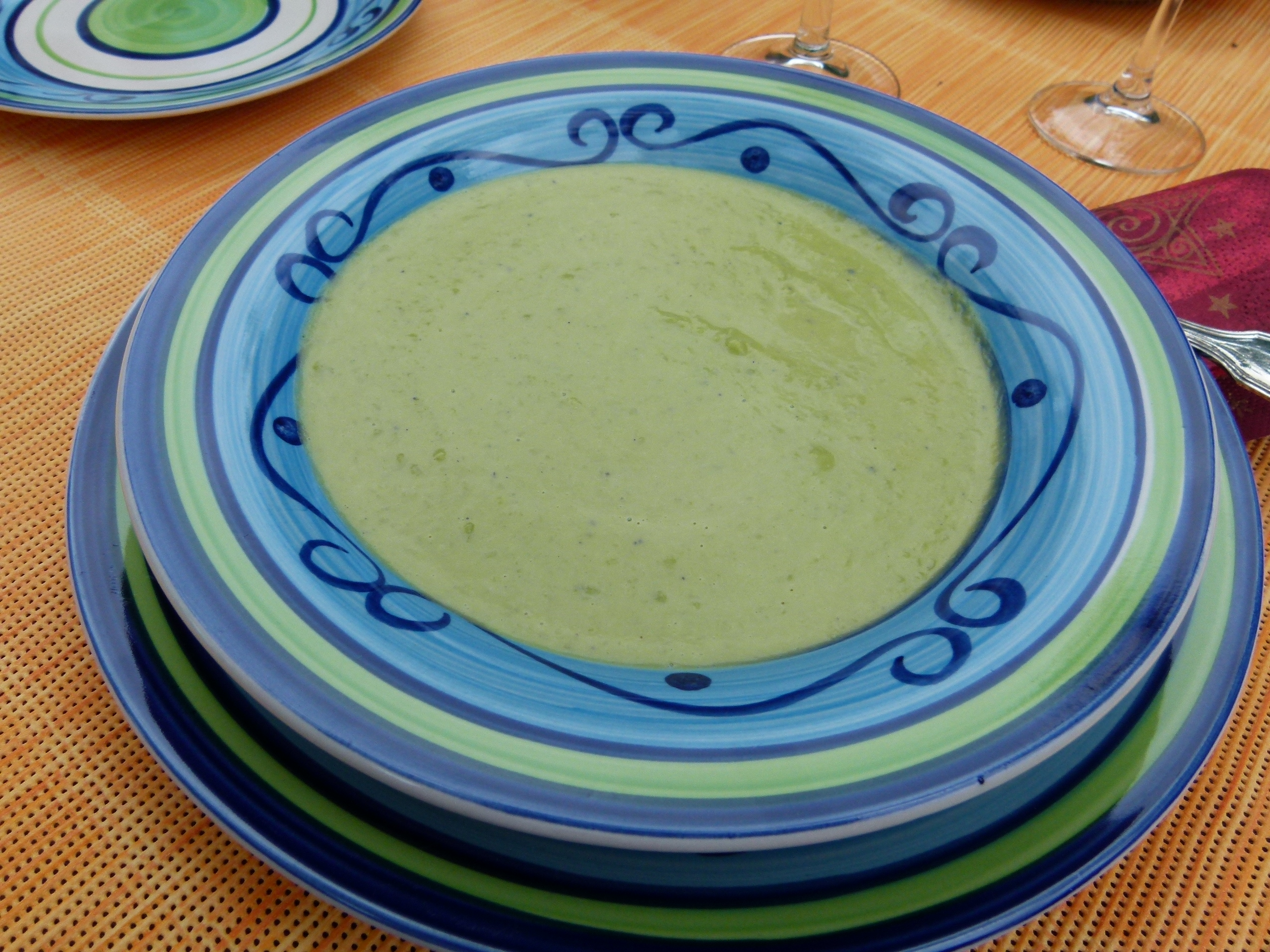 Pureed green pea soup